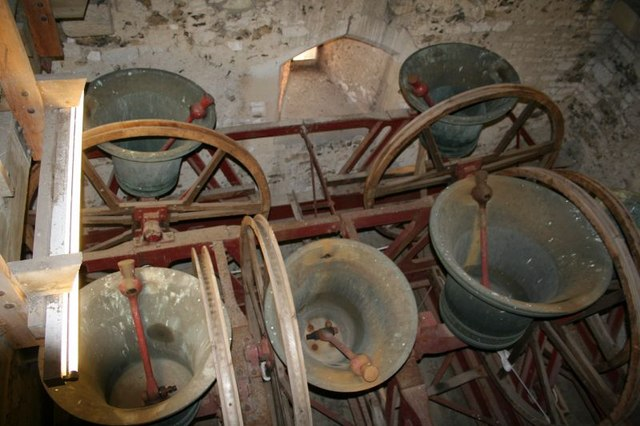 Five of the bells of St Mary's parish church, Cholsey, Oxfordshire (formerly Berkshire), seen from above